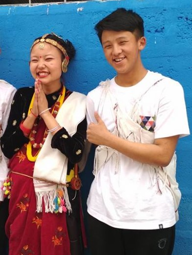 The picture of young girl and boy of magar ethnic group in Nepal.